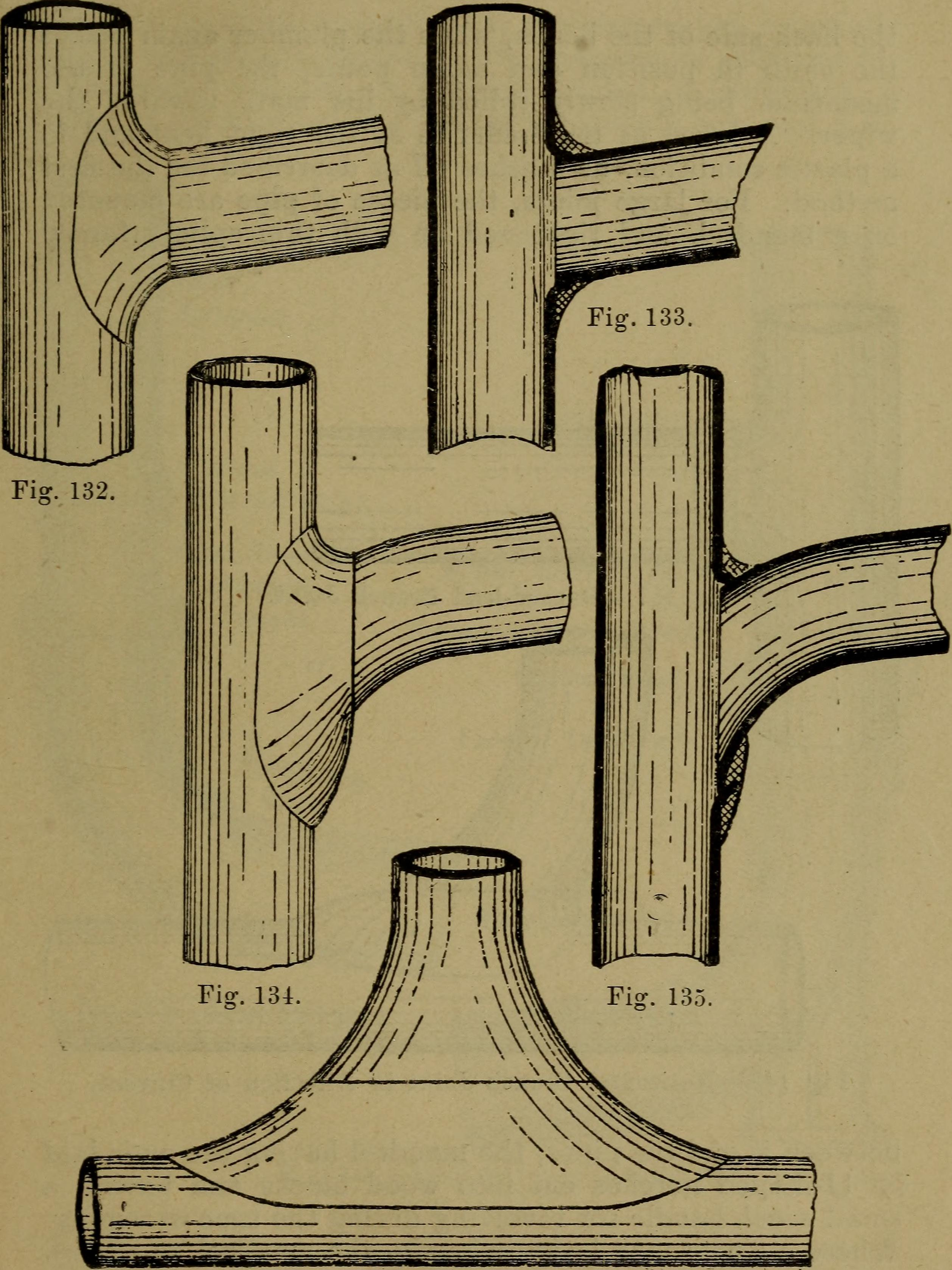 Title: Practical plumbers' work, with numerous engravings and diagrams; Year: 1905 (1900s) Authors: Hasluck, Paul N. (Paul Nooncree), 1854-1931, ed Subjects: Plumbing Publisher: Philadelphia, D. McKay Text Appearing Before Image: Figs. 130 and 131.—Joint of Service Pipe to Cistern. PIPE JOINTISd. 59 Text Appearing After Image: Fig. 136. Figs. 132 and 133.—Branch Soil-pipe Joint. Figs. 134 and 135.—Branch Soil-pipe Joint with Bend. Fig. 136.—Horizontal BranchJoint to Distribute Steam Right and Left, 60 PRACTICAL PLUMBERS9 WORK. the back side of the bench, when the plumber again placesthe cloth in position and again pours, the pipe in themeantime being slowly rolled by his mate towards thewiper. As soon as the solder is at the right heat and ina plastic condition, he finishes off as described for the firstmethod. For large joints, the pieces of pipe are mountedon a mandrel, and tightened up with thin splints forced